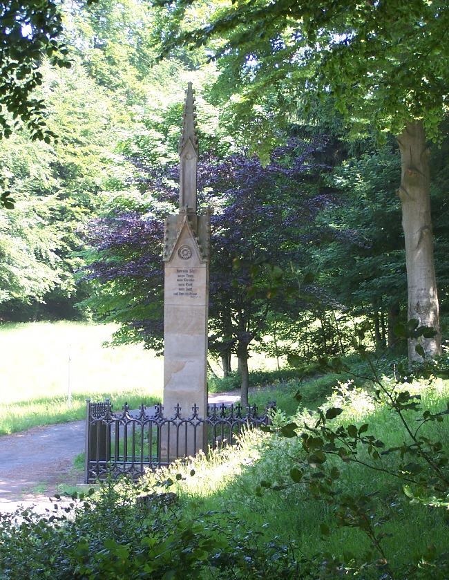 The Luther memorial in Steinbach.